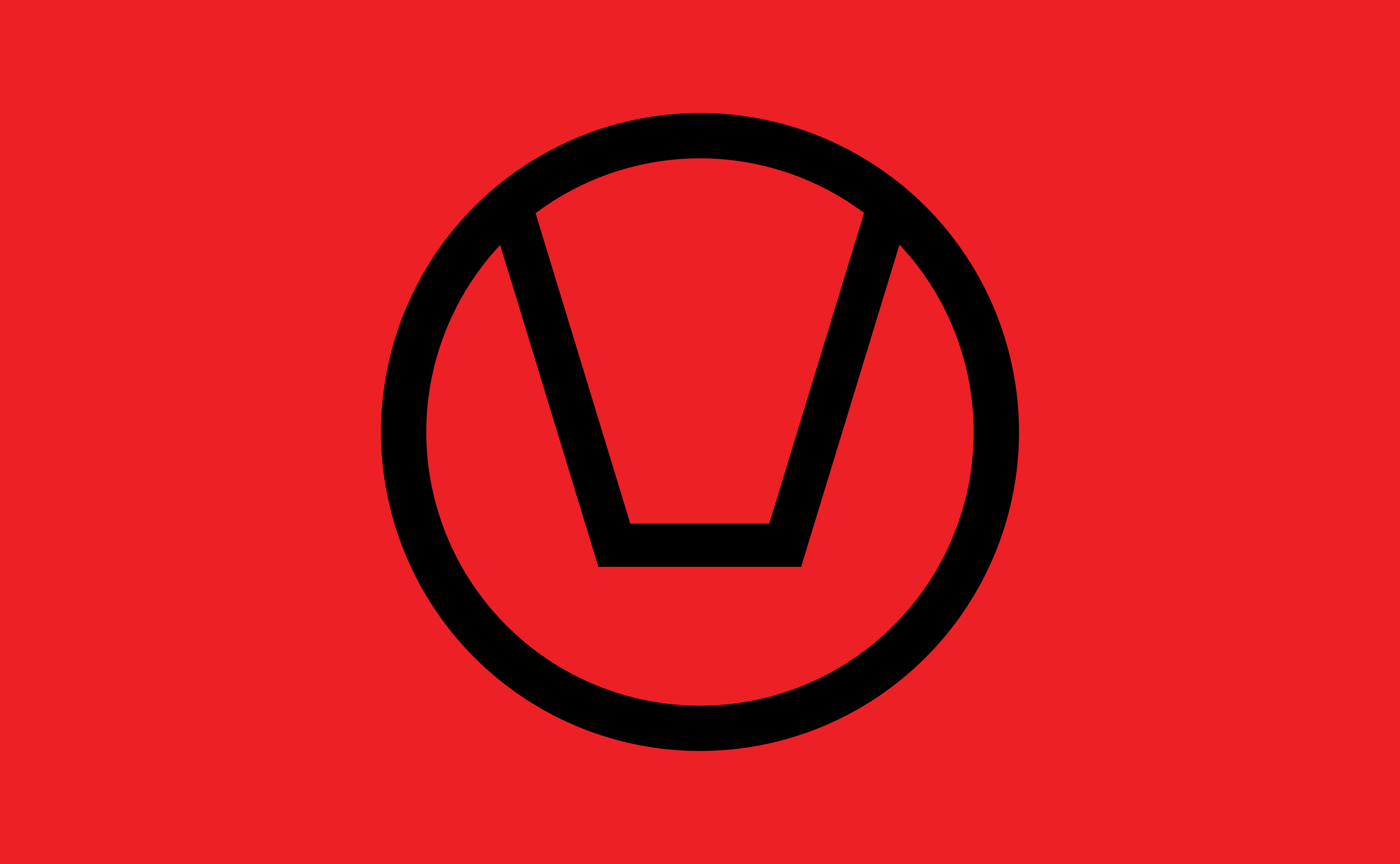 The swinger community has opted certain symbols to identify each other in public. The most popular symbol is the simplified black swing surrounded by a circle on a red background. The swing is very abstract to assure discretion and leave space for imagination. It is often redesigned or modified for pendants, bracelets or collars to create a more elegant or sophisticated look. So if you see people wearing a "swing" jewelry or tattoo, it's most certain that they are part of the swinging community. Of course you can find other less or more obvious swinging symbols and signs used by the community. The color red attracts the most attention and is associated with strong emotions such as "love", "passion", "stimulation" "strength" and "energy". Red is the color used universally to signify courage, strength and power. This represents well the strong bond in swinger couples. Red is stimulating, vibrant and exciting. Red inspires desire and action with a strong link to sexuality and increased appetites. Black is the color of mystery. It covers, hides and implies that there are barriers and limits, just like the swinger lifestyle does. A strong and powerful color, black is formal and sophisticated, sexy and secretive. It is the color of things that may scare and make you hesitate. It is a color that signifies power and control. It is considered intimidating, yet still refined, elegant and confident. The swing obviously represents the concept itself of the "Swinger lifestyle". It is associated with the movement, the swaps and the physical and emotional shares within open relationships and like-minded people. The circle represents the group of swinger people connected by the same lifestyle. It is associated by the strong bond within couples and the community.